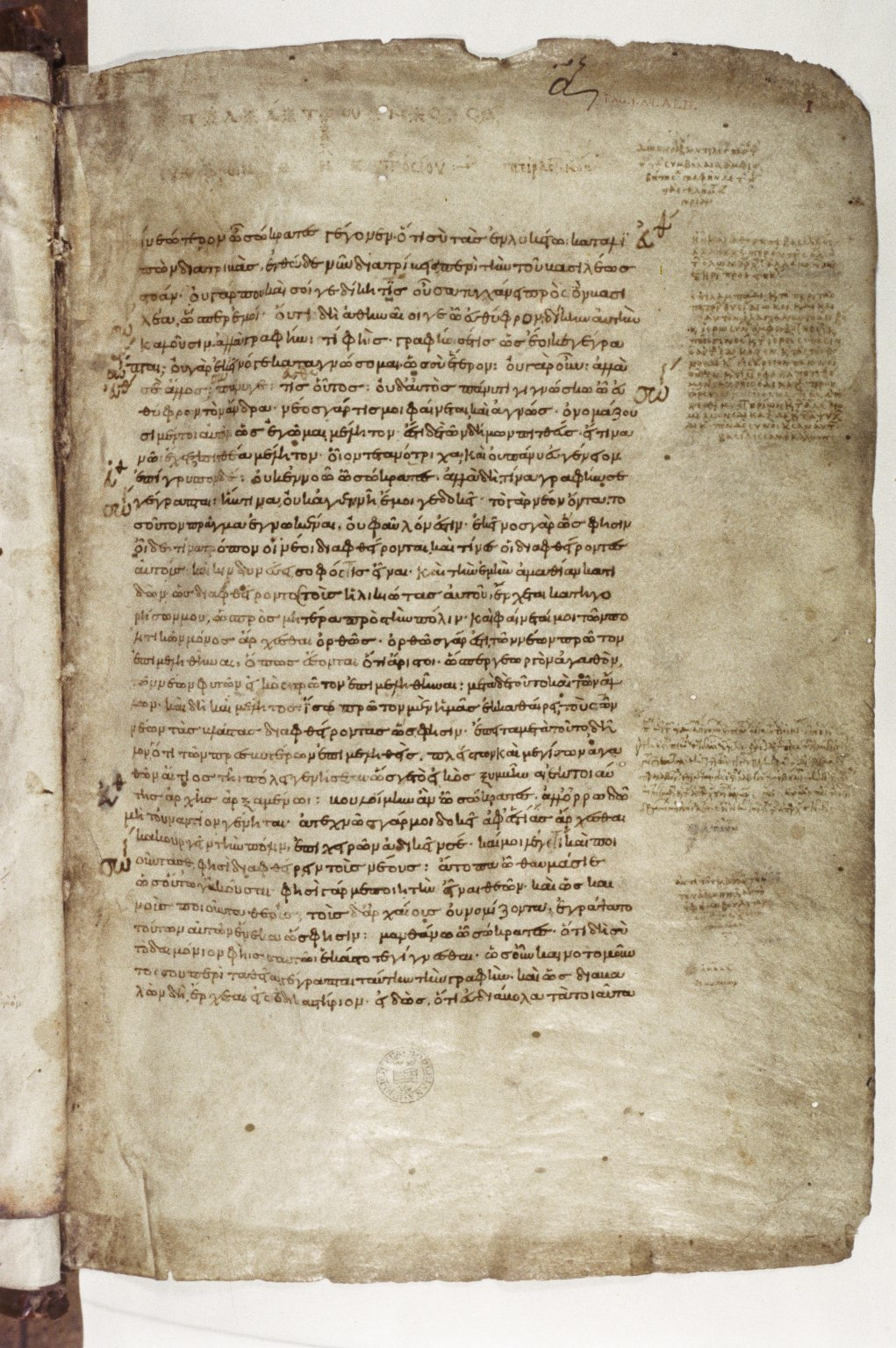 MS. E. D. Clarke 39, first page recto. First page of the Euthyphro, by Plato.